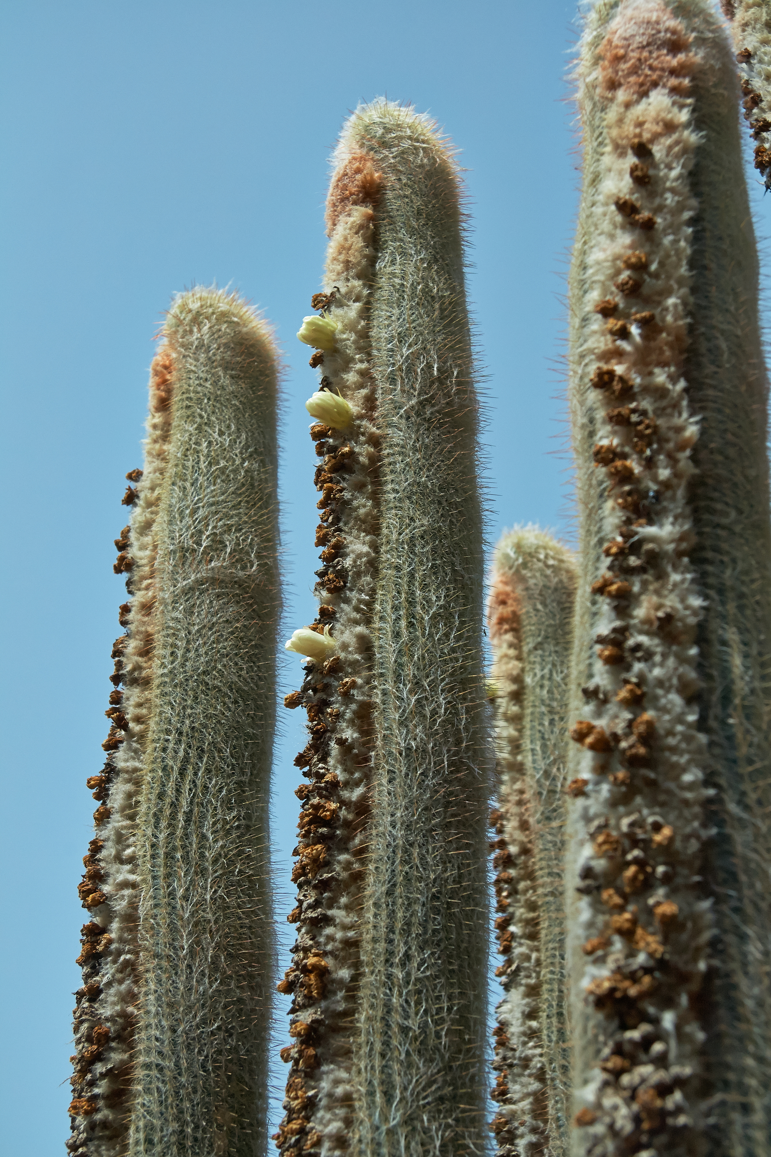 Espostoa lanata at Derek Garden Centre.